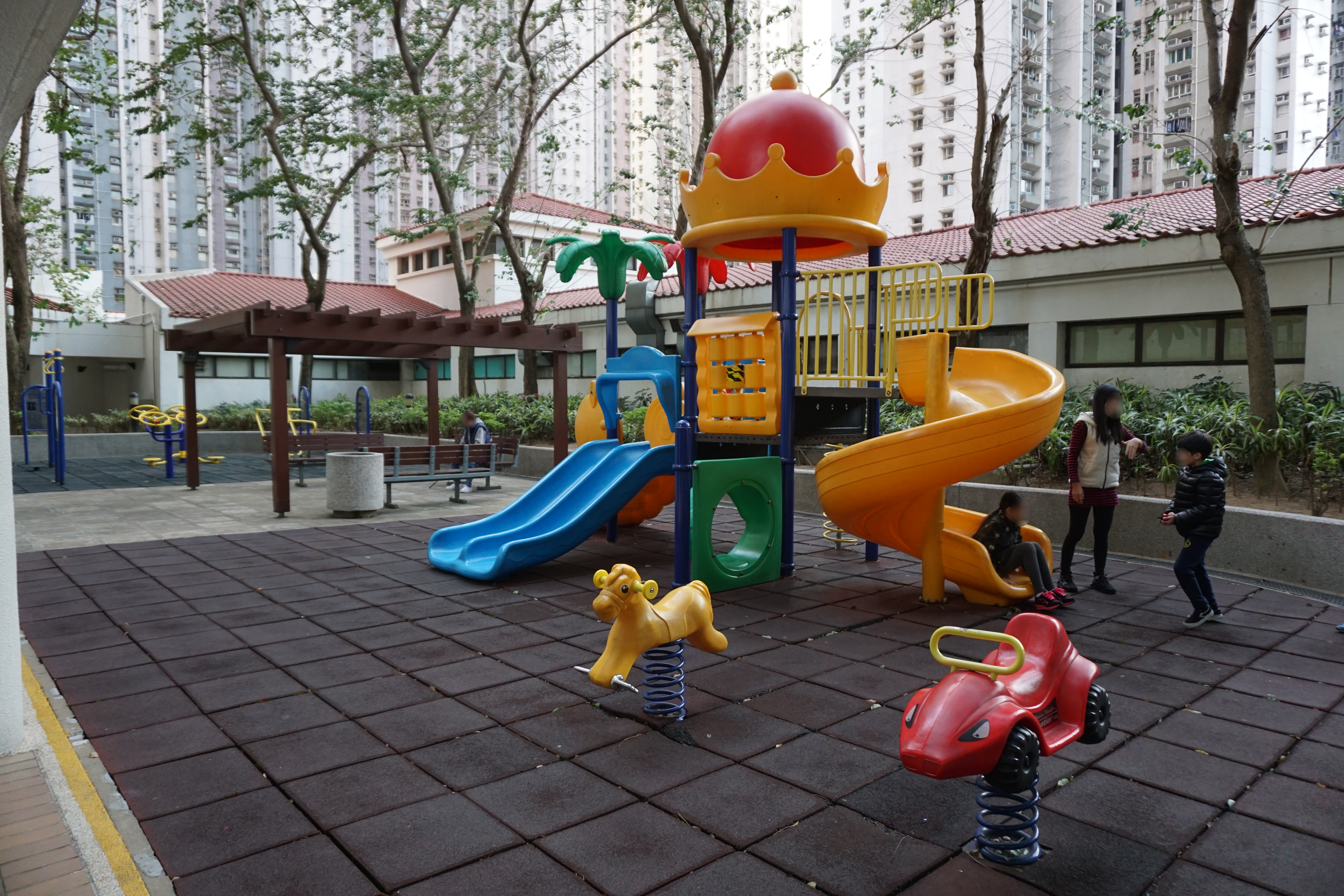 Siu Lun Court in Tuen Mun, Hong Kong.